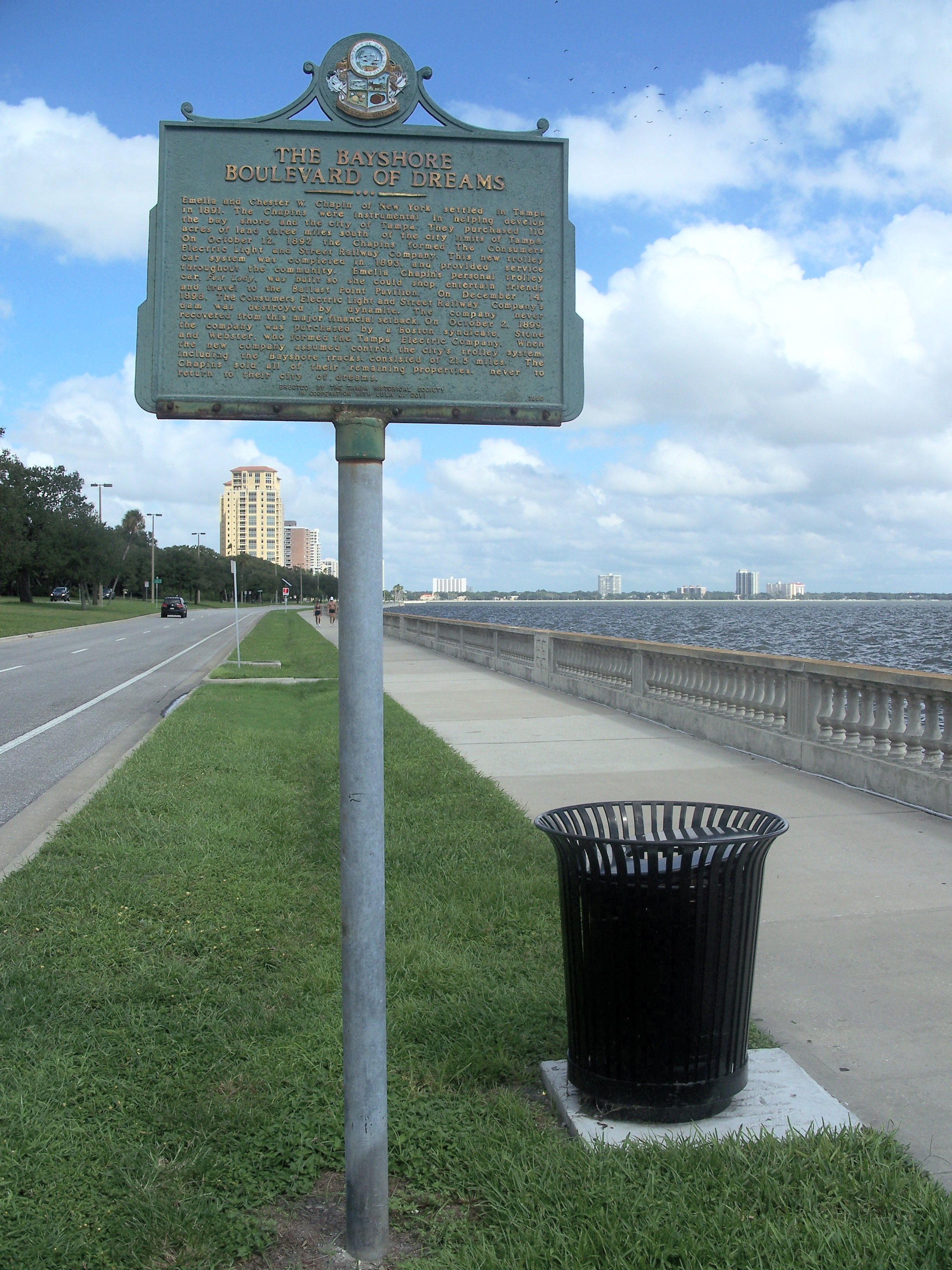 Historical marker describing the history of Bayshore Boulevard, at the southern end of the Boulevard, in Tampa, Florida